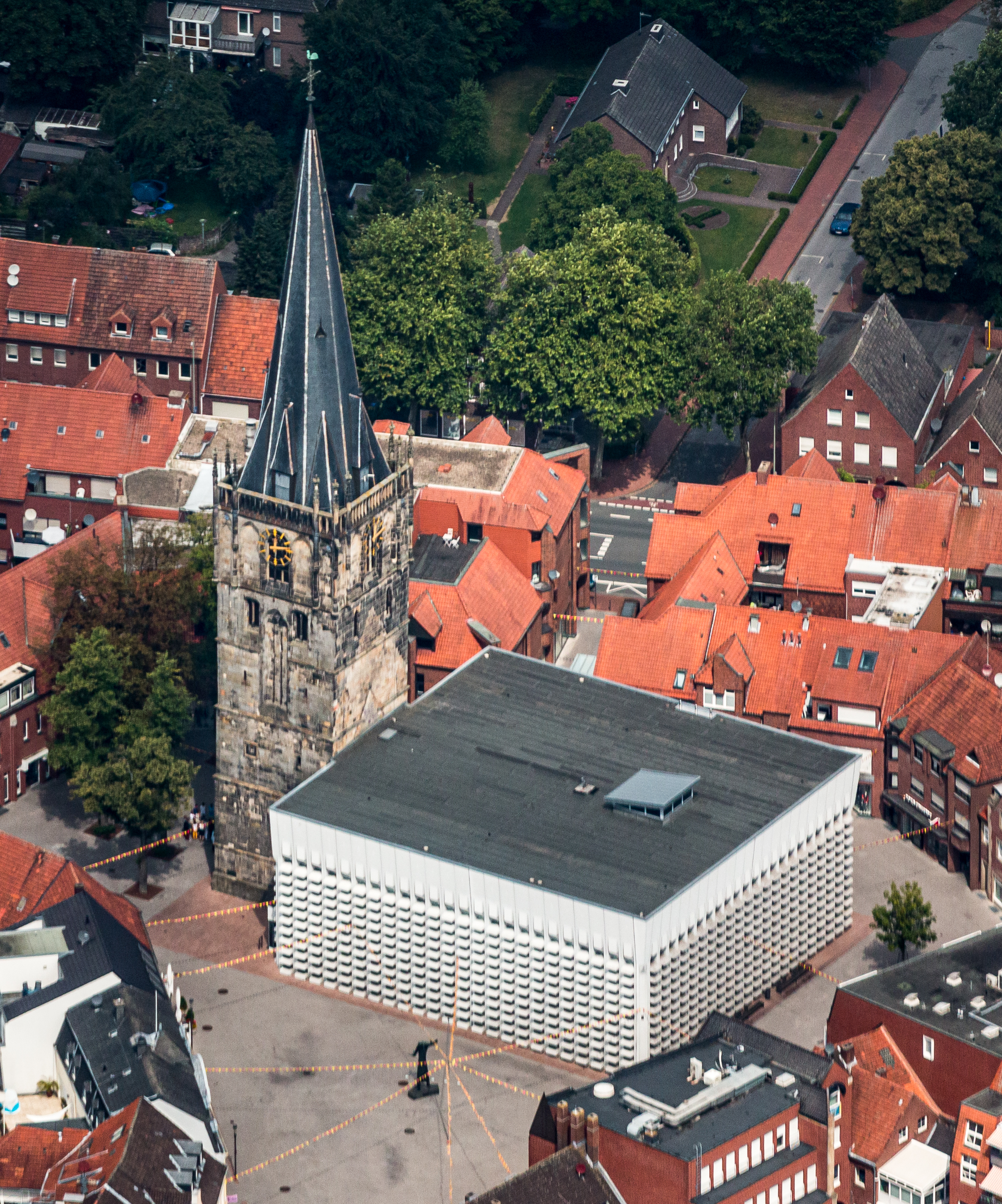 St. Mary's Assumption Church, Ahaus, North Rhine-Westphalia, Germany